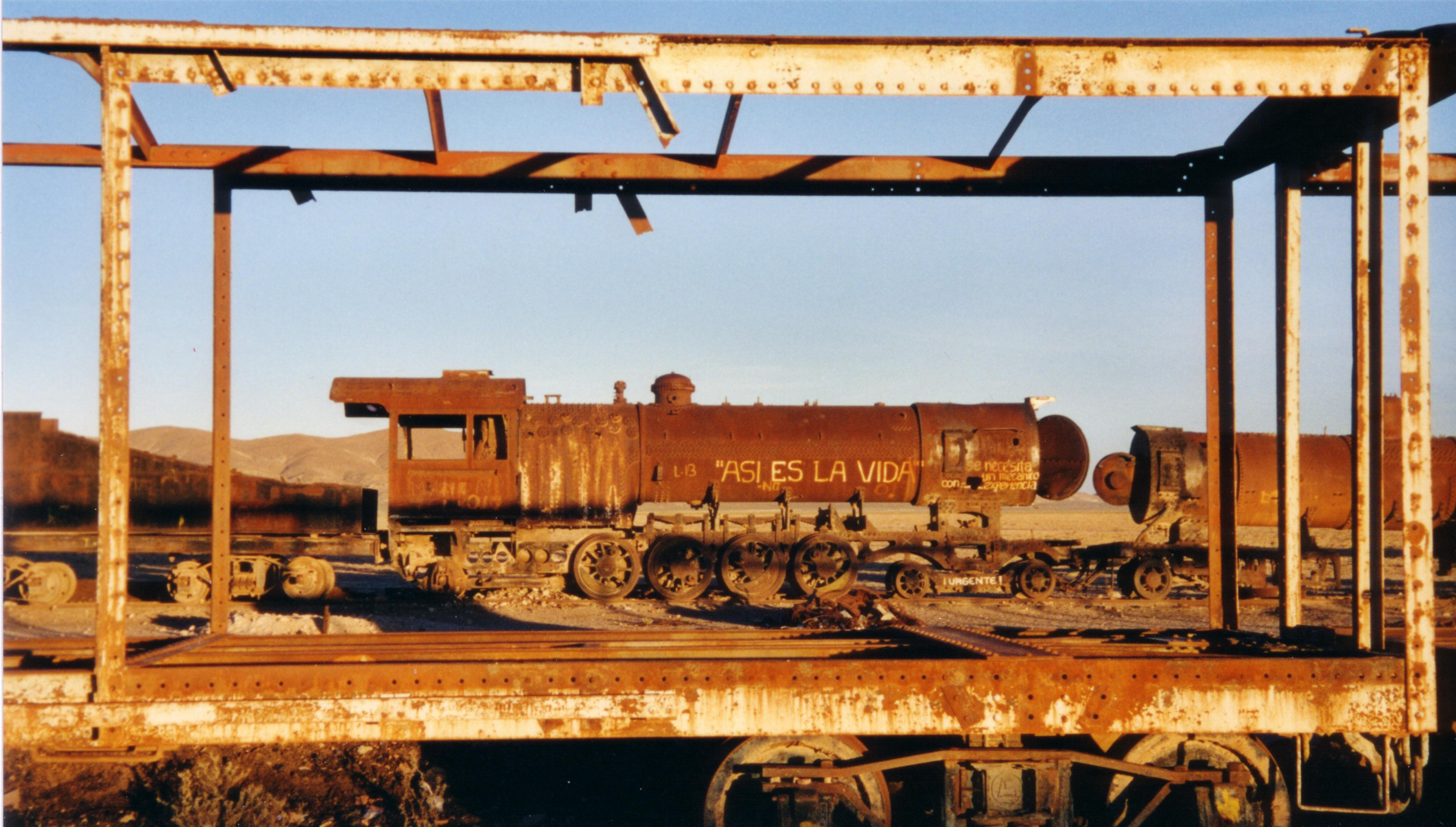 Picture of a train wreck at the train cemetary near Uyuni, Bolivia. The text written on the train reads "Asi es la vida" (en: "That's life"). Vulcan Foundry made locomotive (1954), last steame locomotive of FCAB.